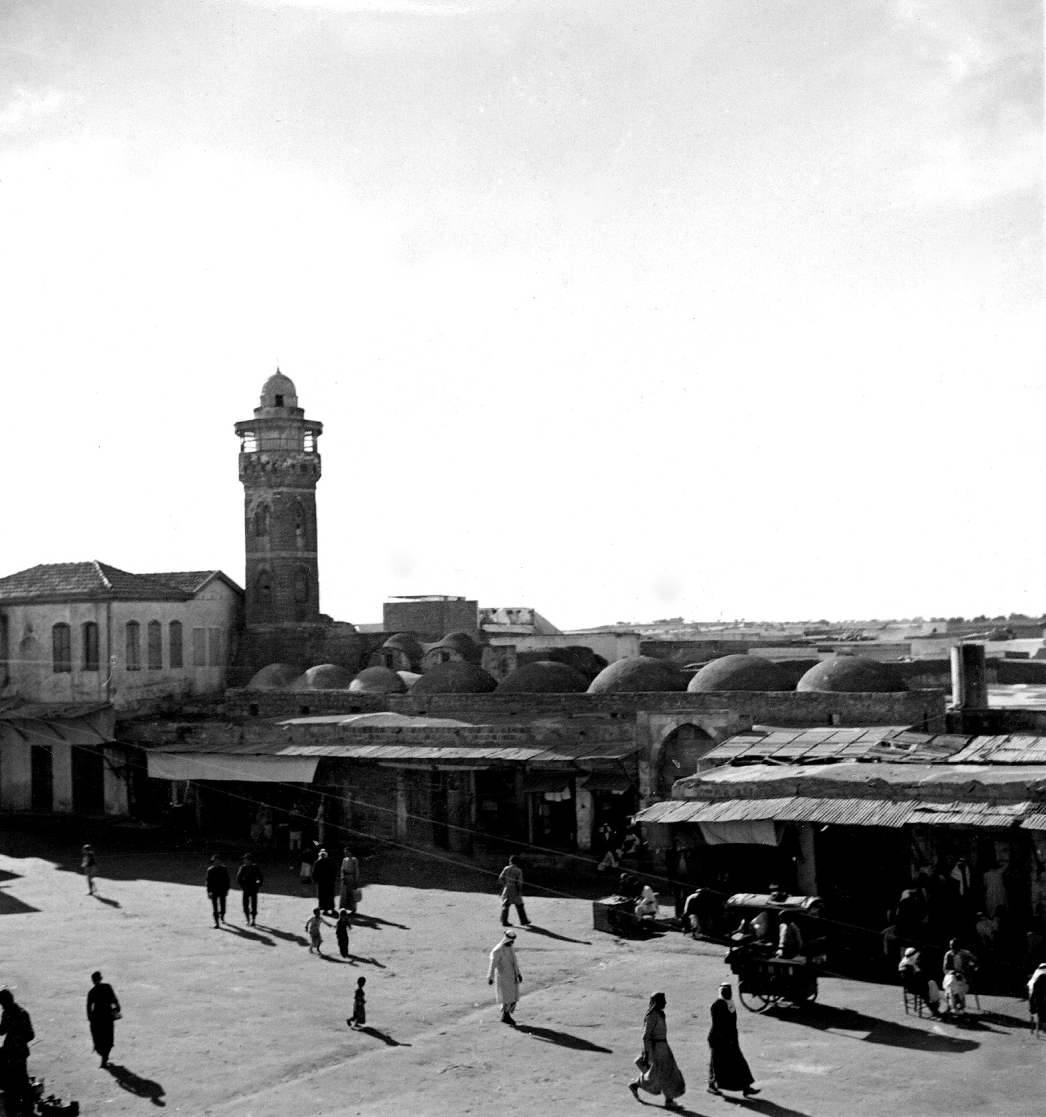 Architecture of Israel